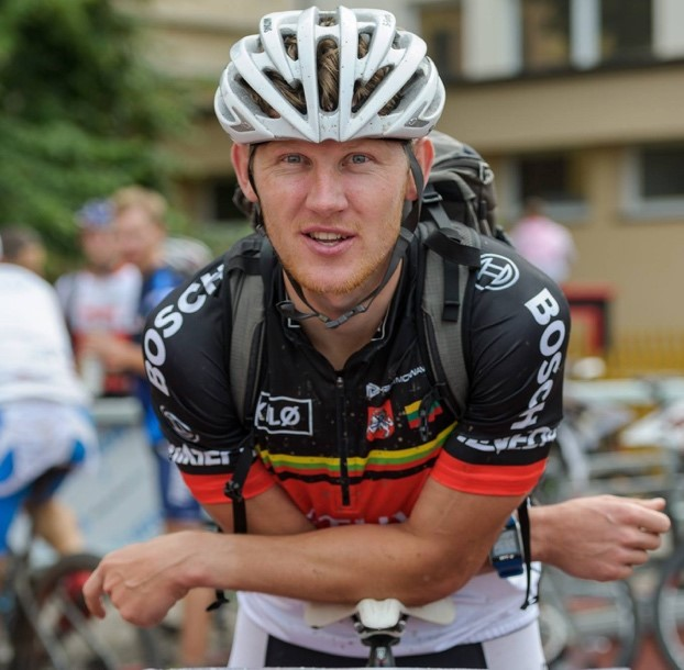 Donatas Mickus